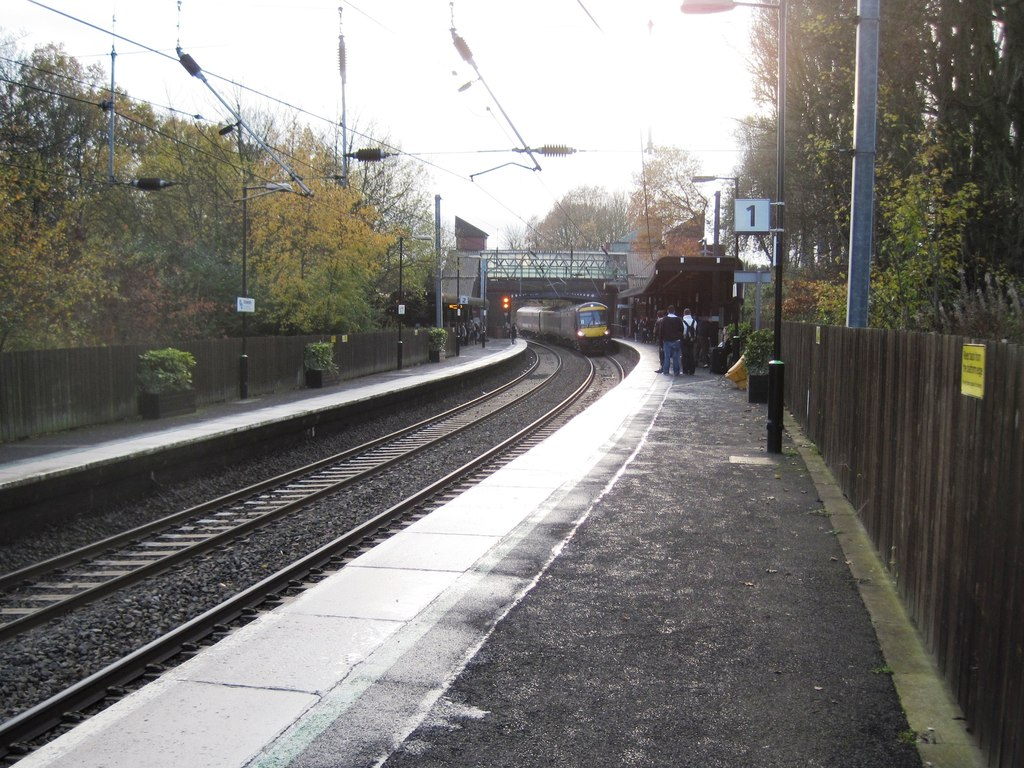 Opened in 1978 by British Rail on the former Midland Railway's Birmingham West Suburban line from Birmingham New Street to Bromsgrove. View south west towards Selly Oak and Bromsgrove.